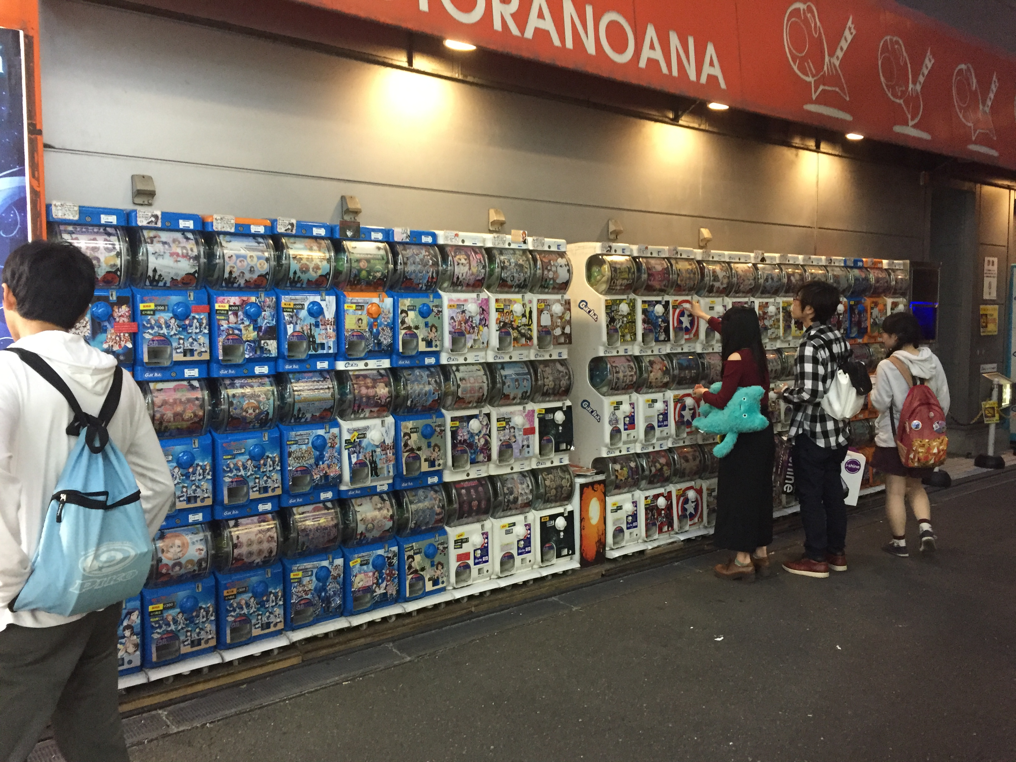 A lineup of Gashapon machines at Akihabara near Taito Station.